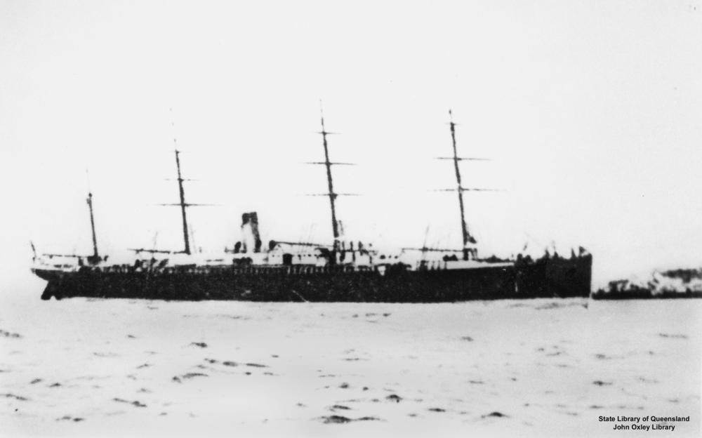 4,448 GRT liner Coptic, built by Harland and Wolff in 1881 for White Star Line and later managed by Shaw, Savill & Co. In 1906 the Pacific Mail Steamship Co bought her and renamed her Persia. In 1915 the Oriental Steam Ship Co bought her and renamed her Persia Maru. She was scrapped in Osaka in 1926.